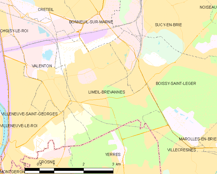 Map of French municipality Limeil-Brévannes